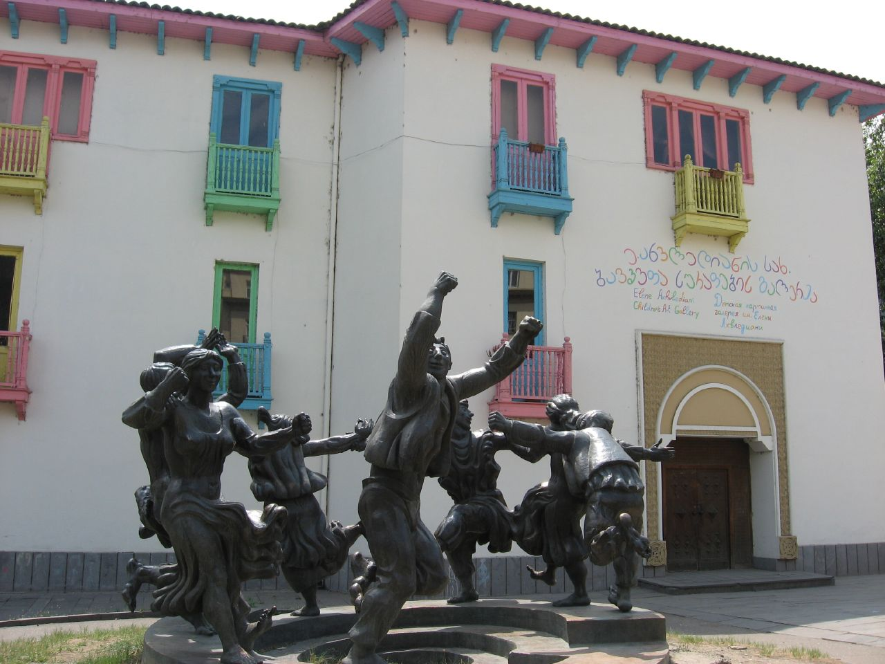 Statue of a dancing people in Tbilisi